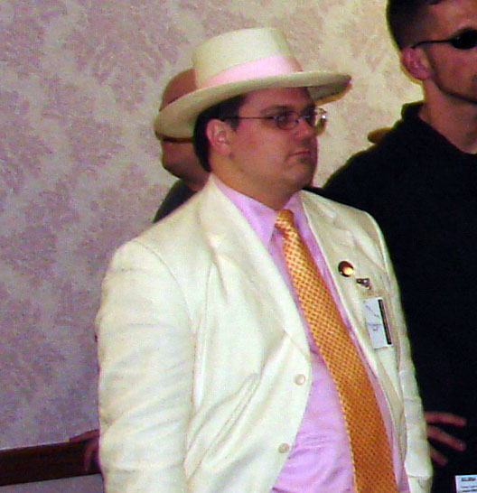 Character from LARP — Photo by Hans Watson